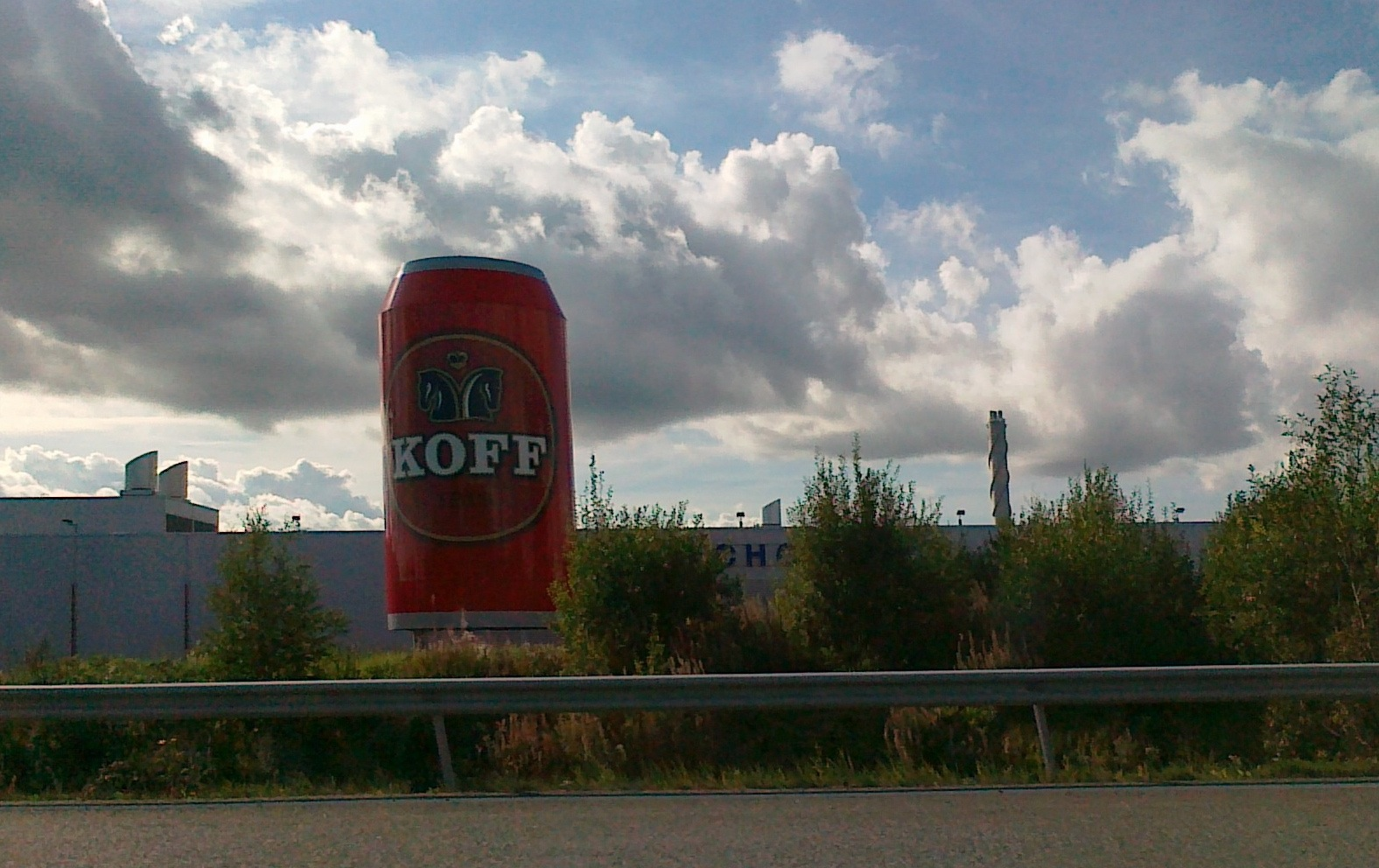 Sinebrychoff Brewery in Kerava from Helsinki-Lahti road